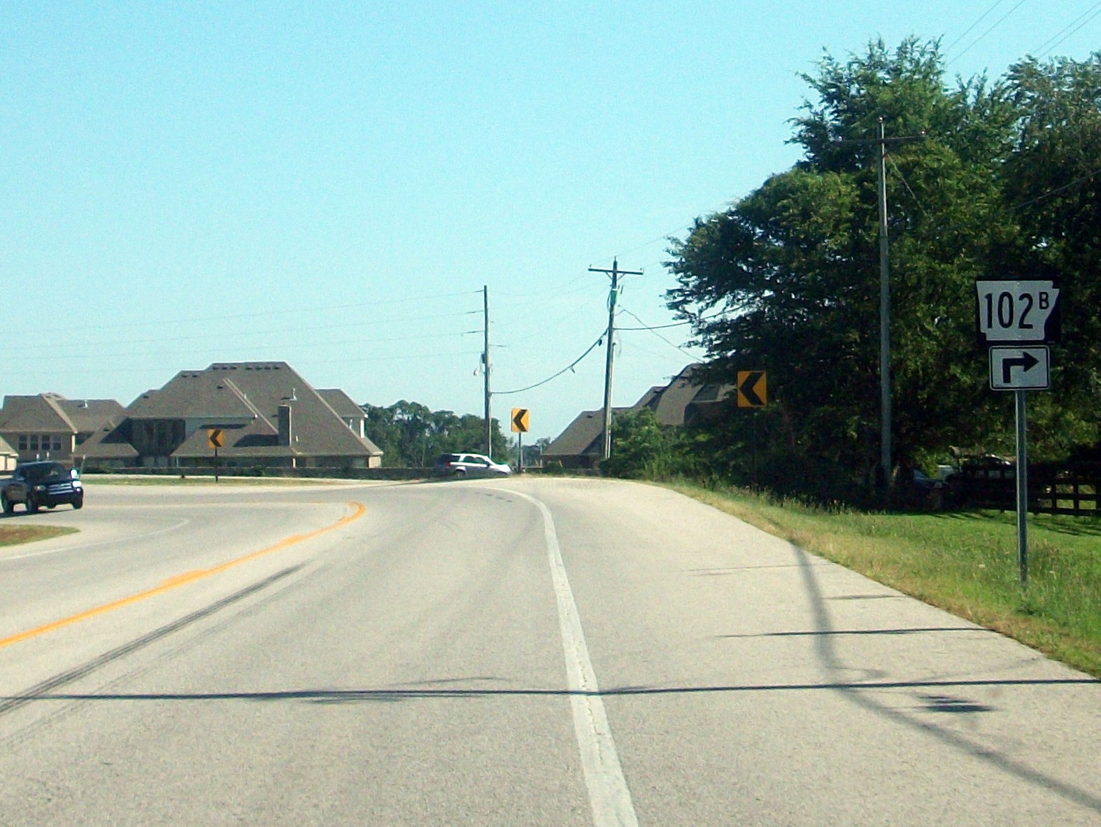 Sign showing junction with the northern terminus of Highway 102B at Highway 72 in Centerton, Arkansas